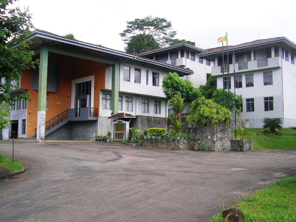 There are 17 Advanced Technological Institutes operated by SLIATE island wide having conducted a broad range of multi-disciplinary programs targeting at A/L qualified students in Sri Lanka. Labuduwa Advanced Technological Institute is a leading institute among them.